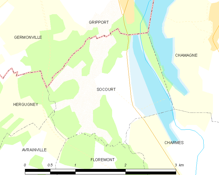 Map of French municipality Socourt